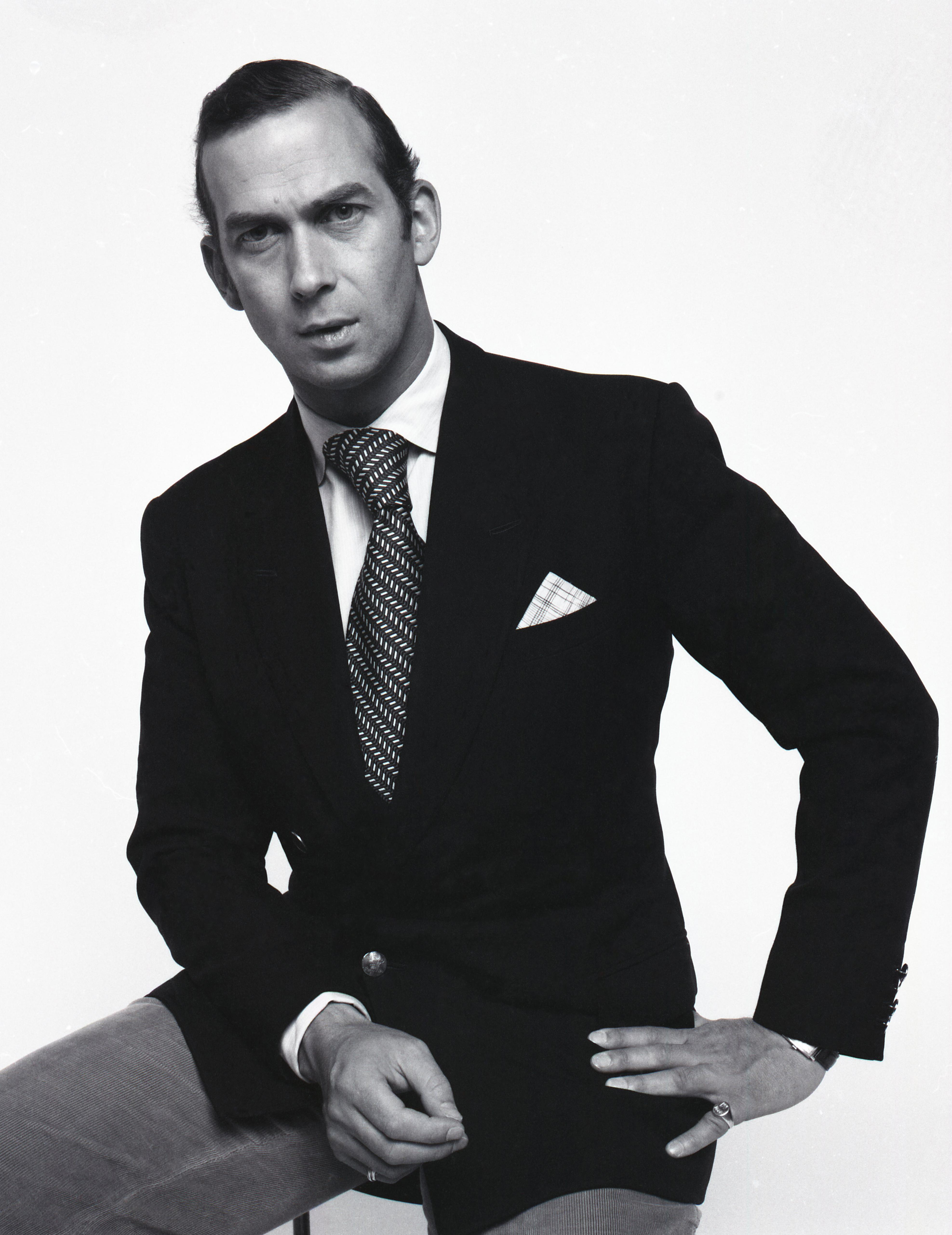 Prince Michael of Kent taken photographer's studio London